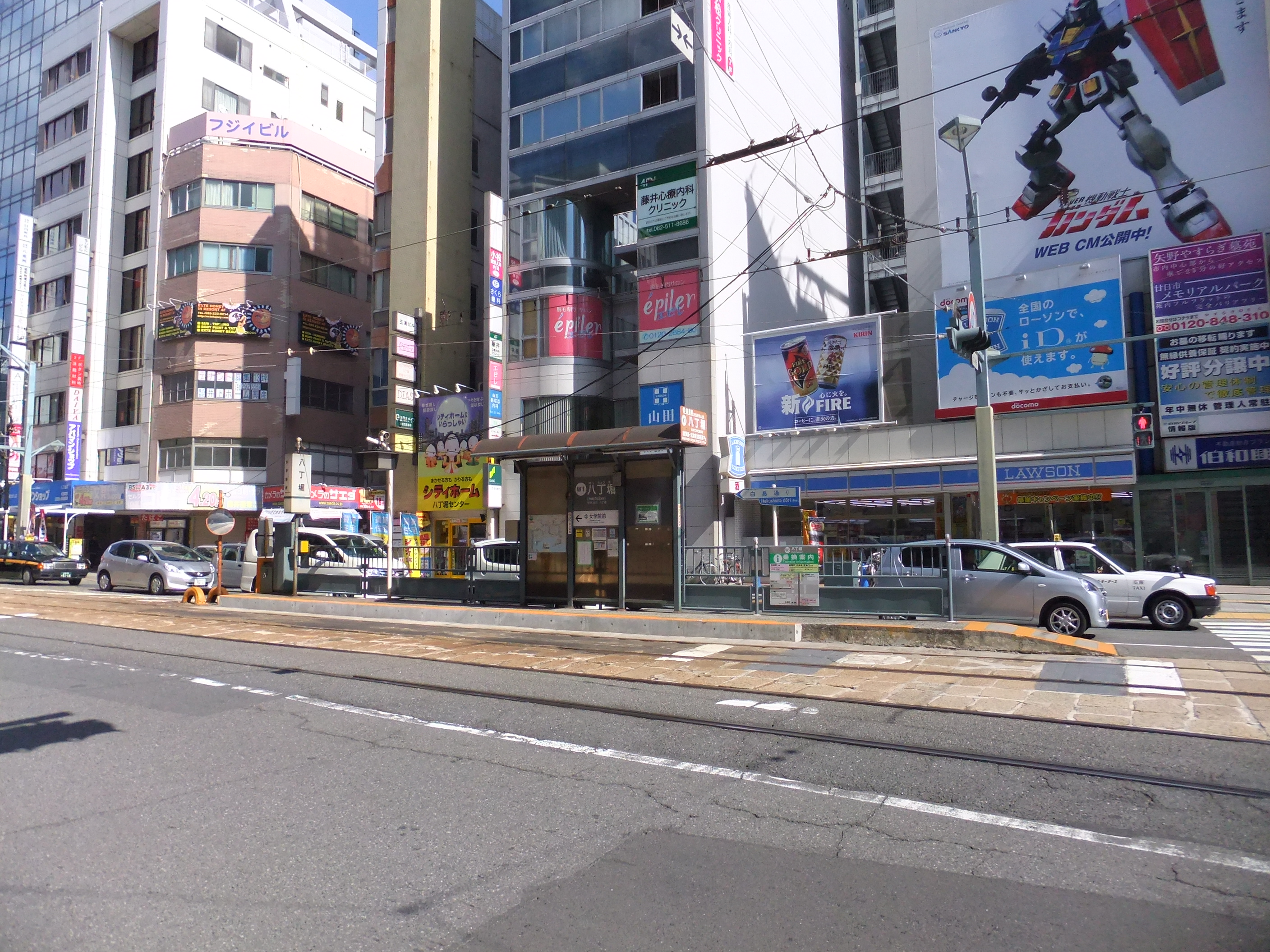 Hiroshima Electric Railway Hatchobori Station